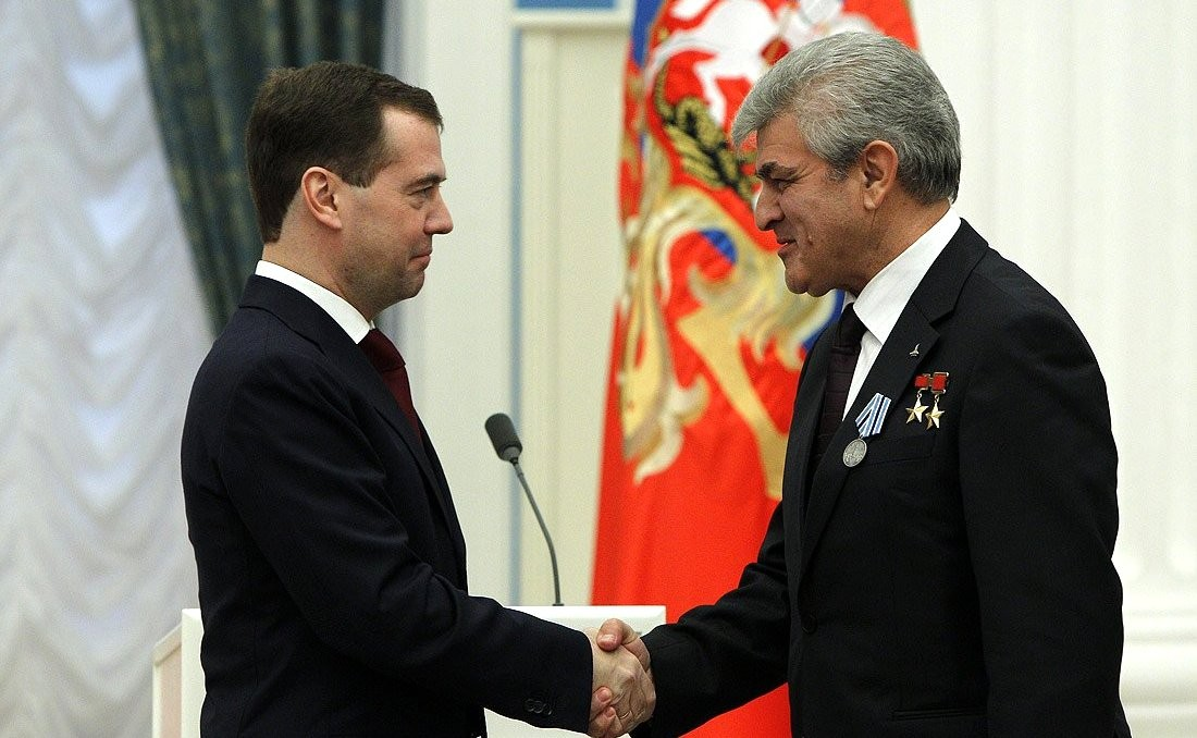 Bulgarian cosmonaut and researcher Alexander Alexandrov was awarded the Medal for Merits in Space Exploration.